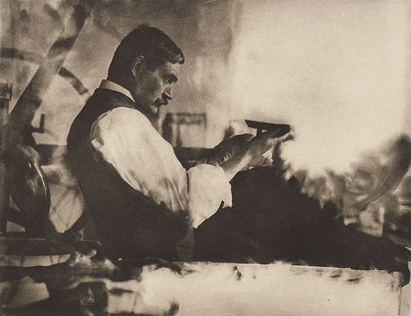 William Strang, Camera Work XIX, 1907